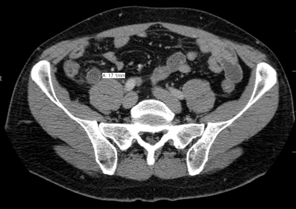 A cat scan demonstrating acute appendicitis (note the appendix has a diameter of 17.1mm)